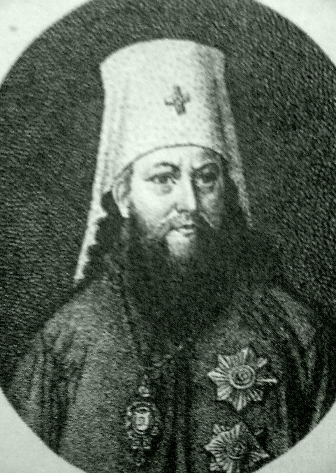 Theophylact (Rusanov), exarch of Georgia